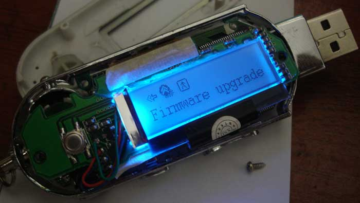 Author : Wladston Viana